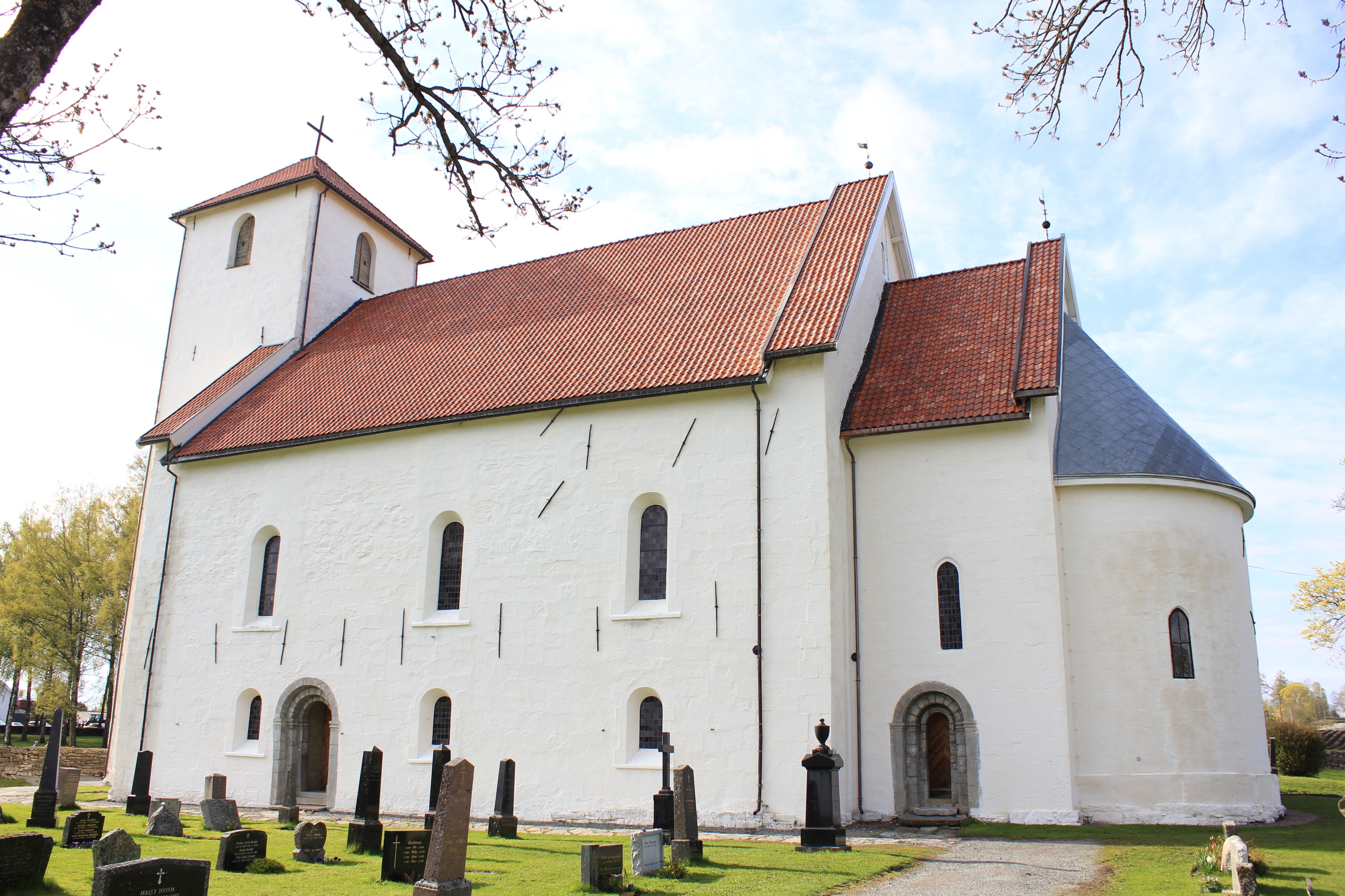 Hoff church at Østre Toten by Lena, Oppland, Norway. Hoff kirke ved Lena på Østre Toten.